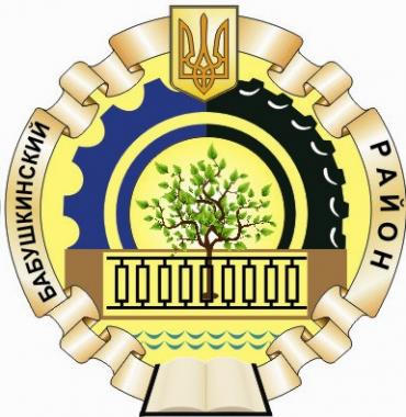 Coat of arms of the Babushkinskyi District, Dnipropetrovsk, Ukraine.